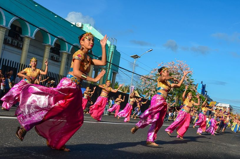 Magayon Festival in Legazpi, Albay, Philippines